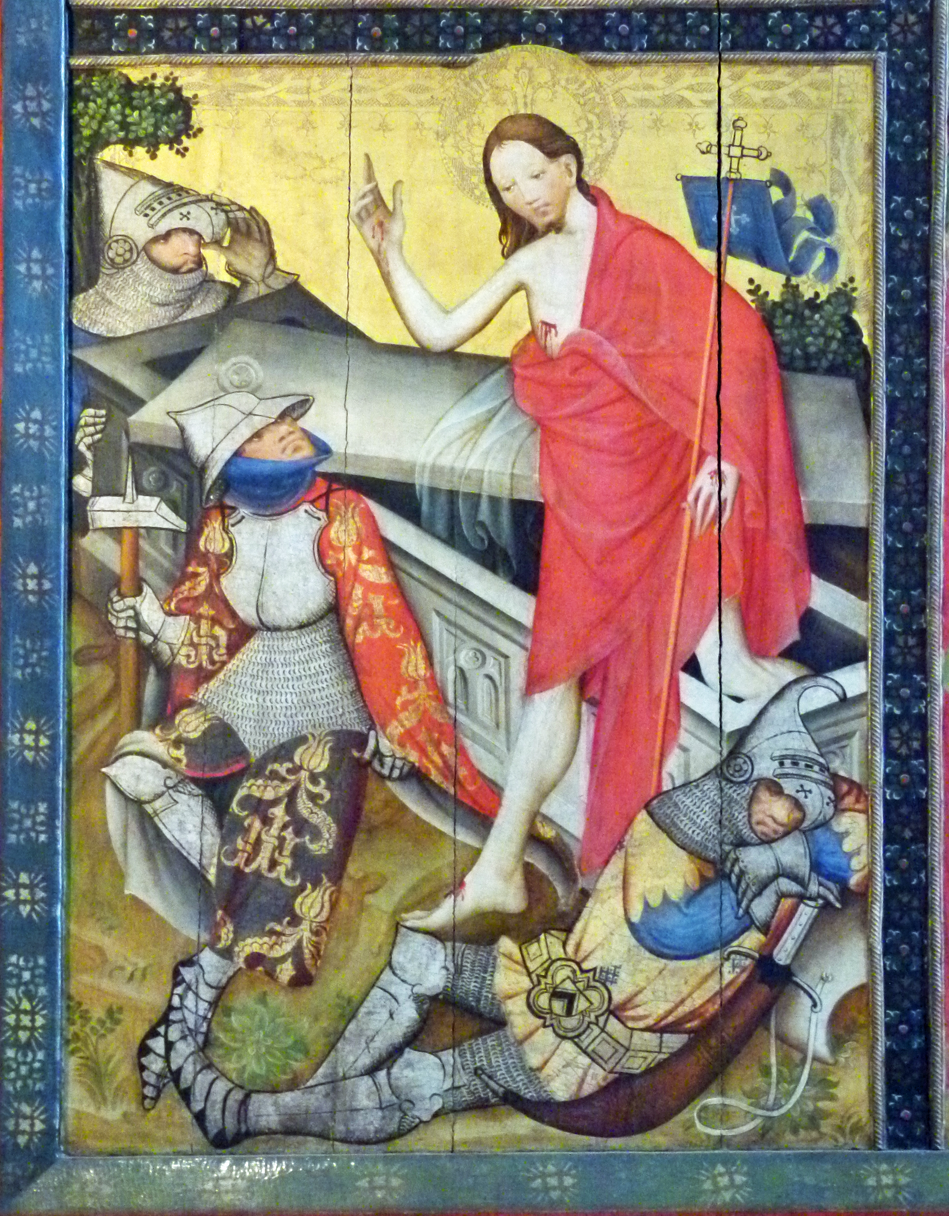 Resurrection of Christ, panel from the Wildunger Altarpiece of Konrad von Soest